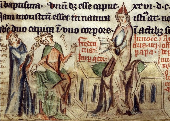 Excommunication of Emperor Frederick II. Emperor Frederick II is excommunicated by pope Innocent IV.